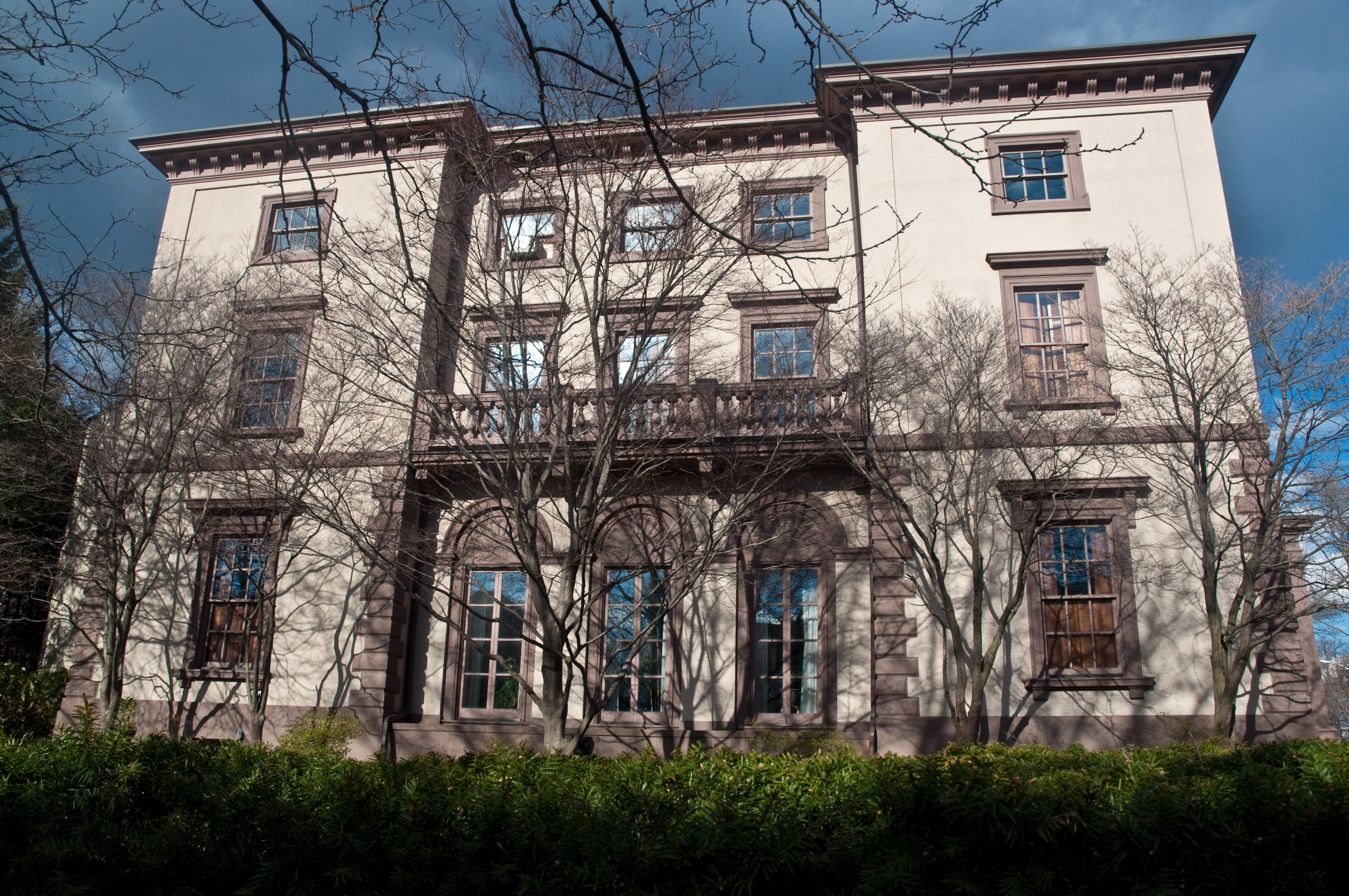 Thomas F. Hoppin House, Providence, Rhode Island, 2 April 2011